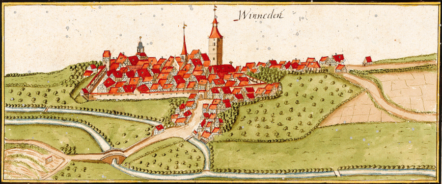 View of Winnenden from the forest register books created by Andreas Kieser